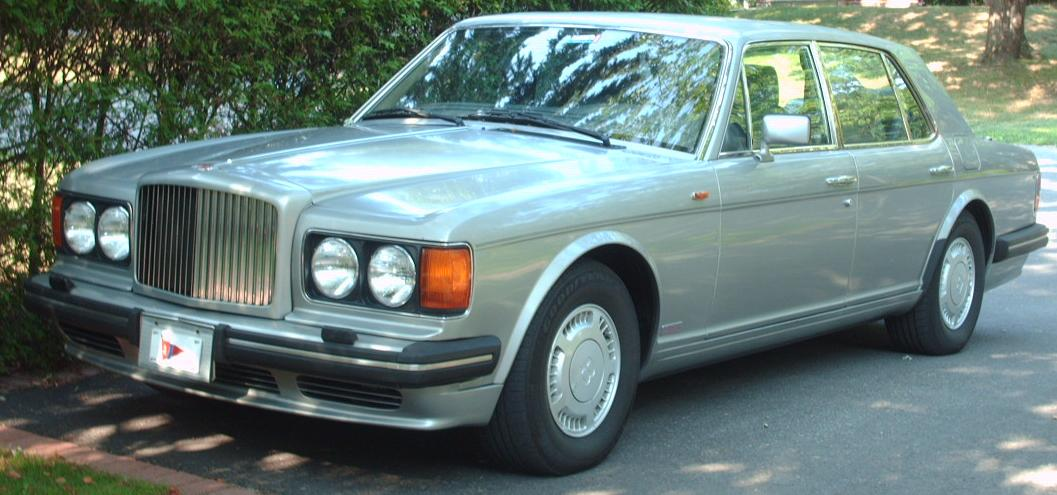 1989-1994 Bentley Turbo R photographed in Montreal, Quebec, Canada.